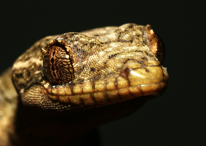 Thecadactylus rapicauda